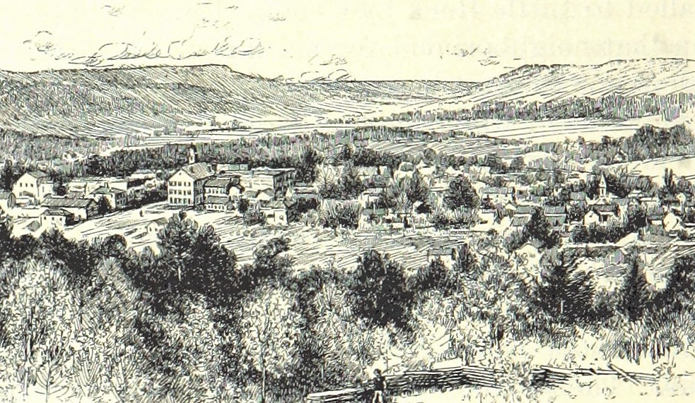 A circa 1887 view of Fayetteville, Arkansas